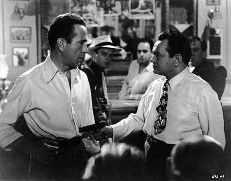 Humphrey Bogart and Edward G. Robinson in American crime noir film Key Largo (1948). See also film still. No copyright notice.